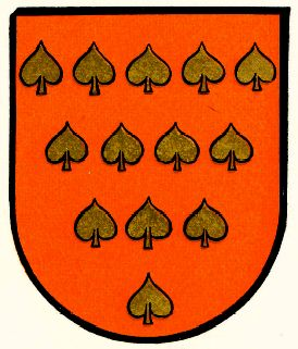 Coat of arms of Amt Höxter-Land (Höxter, Germany)